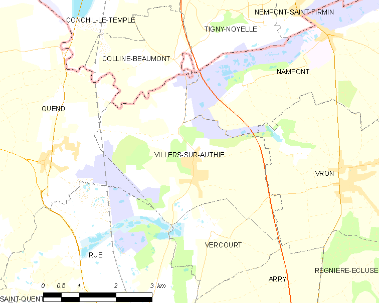 Map of French municipality Villers-sur-Authie